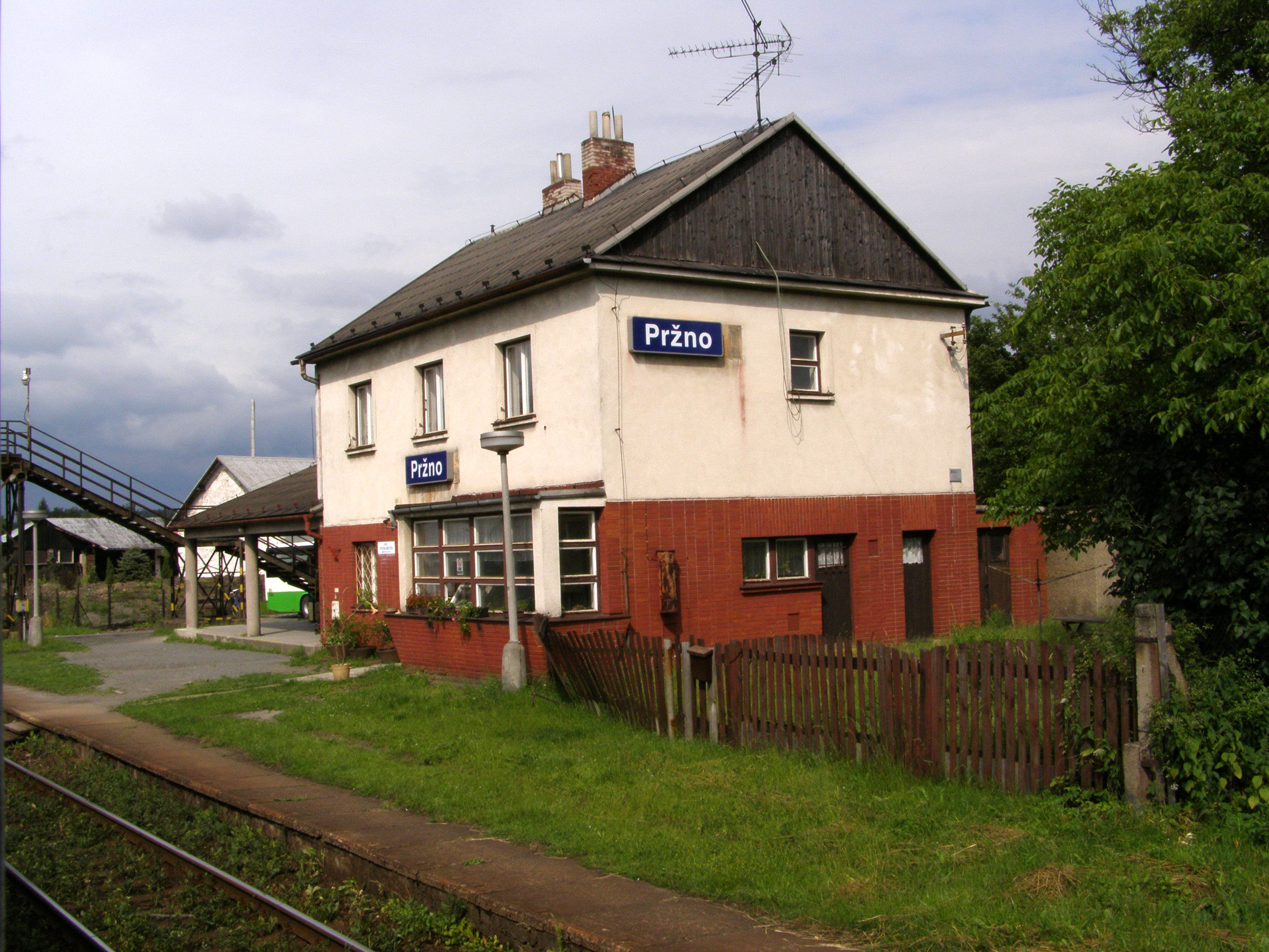 Train station in Pržno